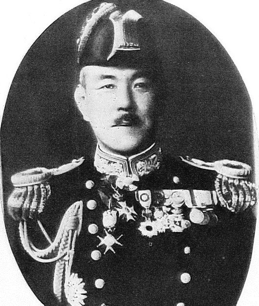 Koshiro Oikawa